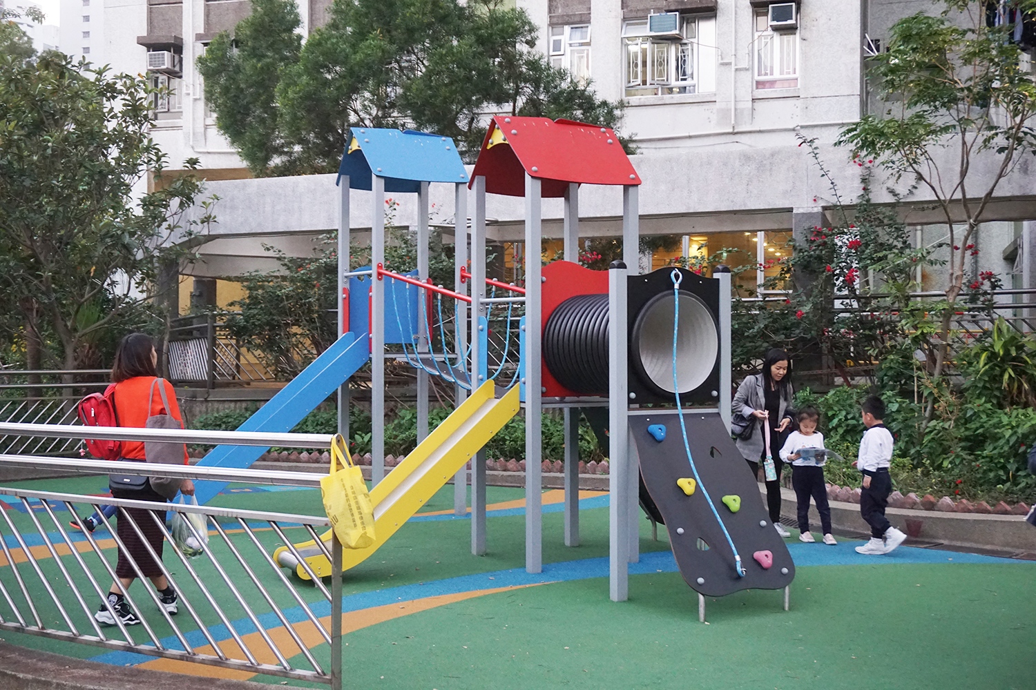 Tin Ma Court in Chuk Yuen, Hong Kong.